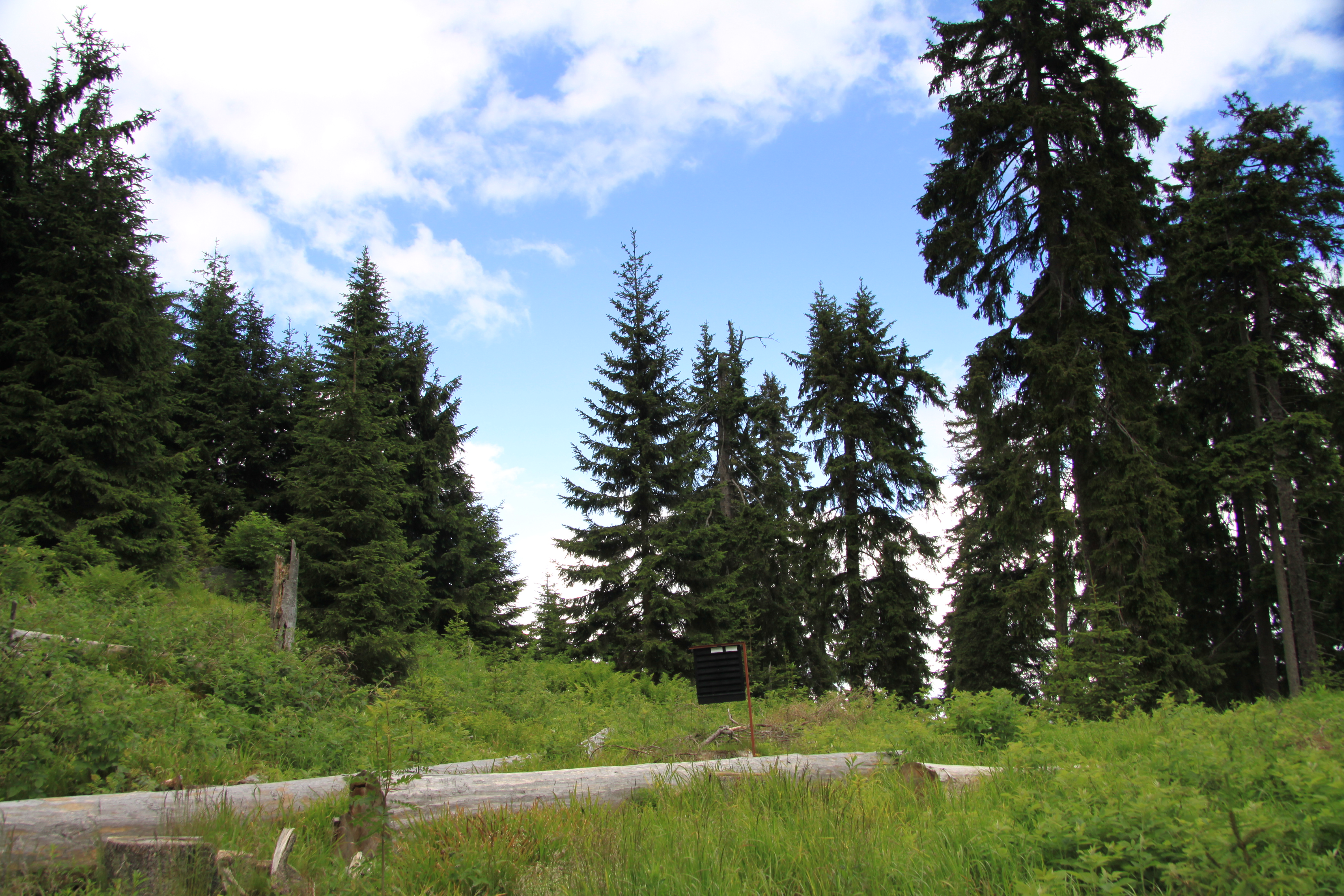 National nature reserve Boubínský prales, Prachatice District, Czech Republic